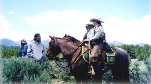 United States Forest Service Law Enforcement & Investigations Horse patrol.